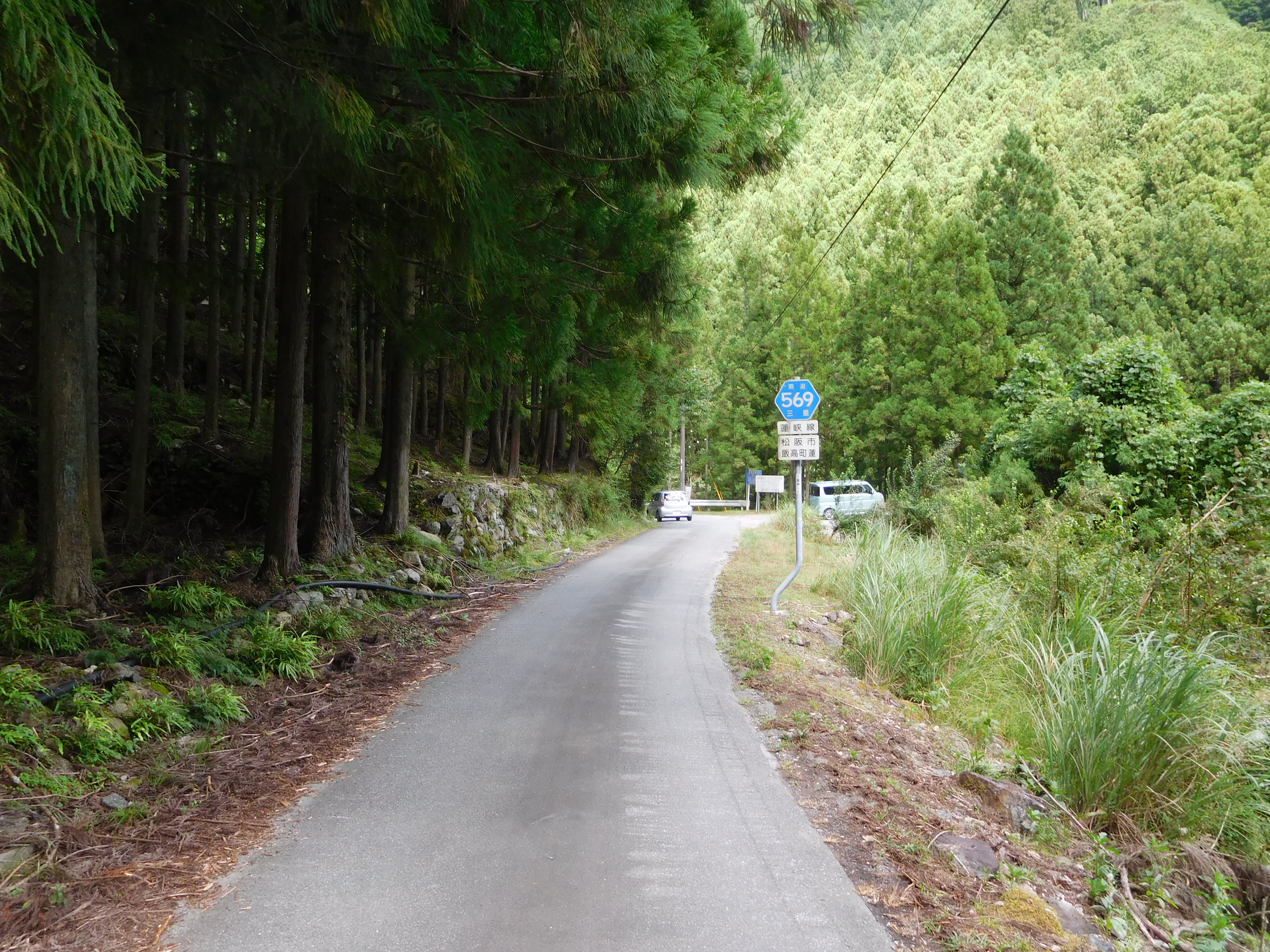 This is a landscape of Mie prefectural road No.569 Hachisu-kyo Line in Iitakacho-Hachisu, Matsusaka, Mie, Japan.